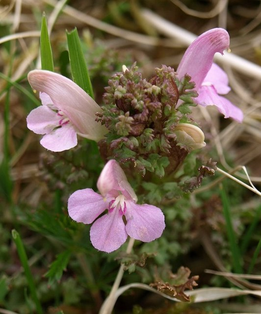 Lousewort, Bodmin Moor. Pedicularis sylvatica, taken not far from 793985. An ugly name for a pretty flower; possibly the association with causing lice in animals is related to it sharing a boggy habitat with the liver fluke.